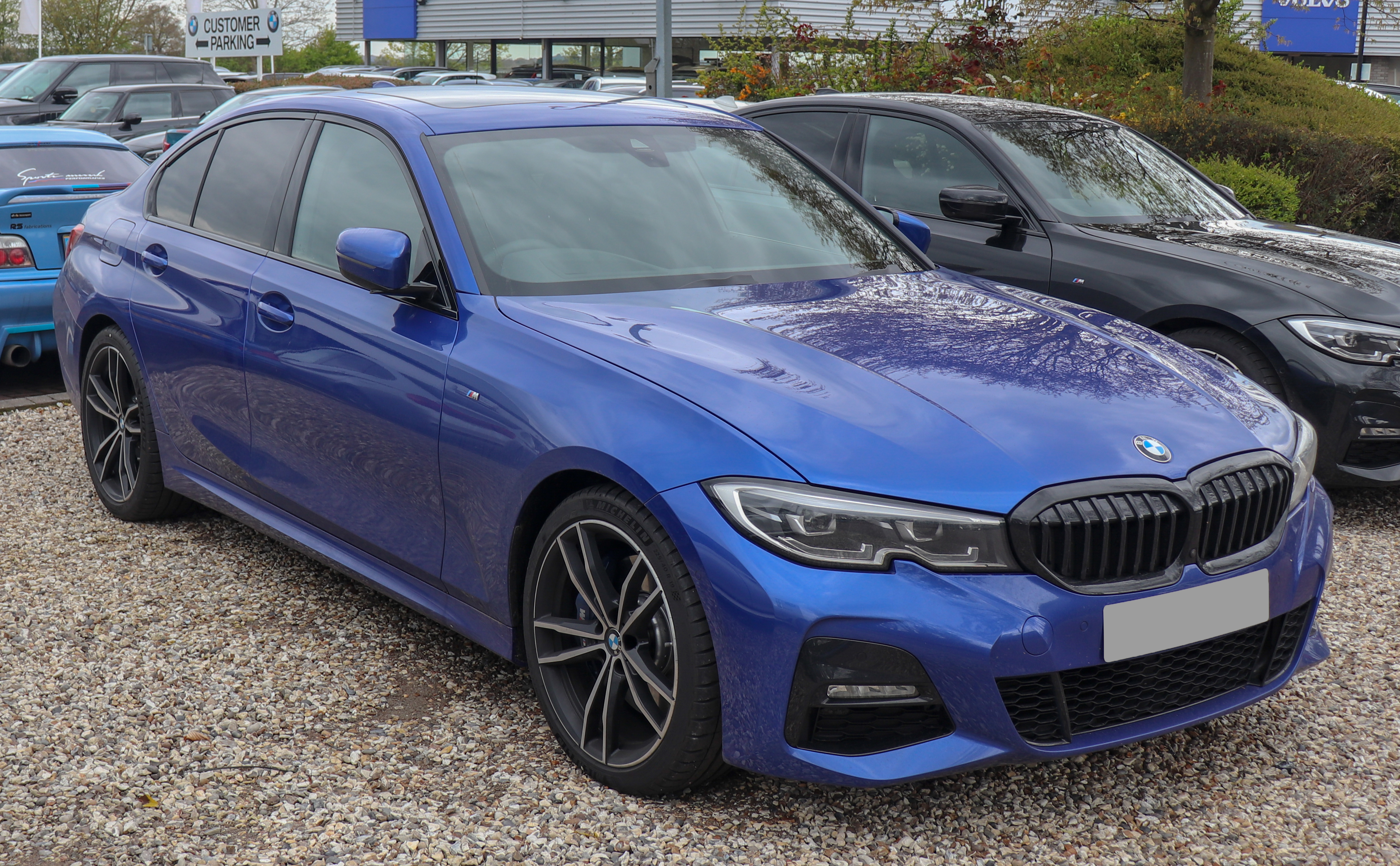 2019 BMW 330i M Sport 2.0 Front Taken in Leamington Spa